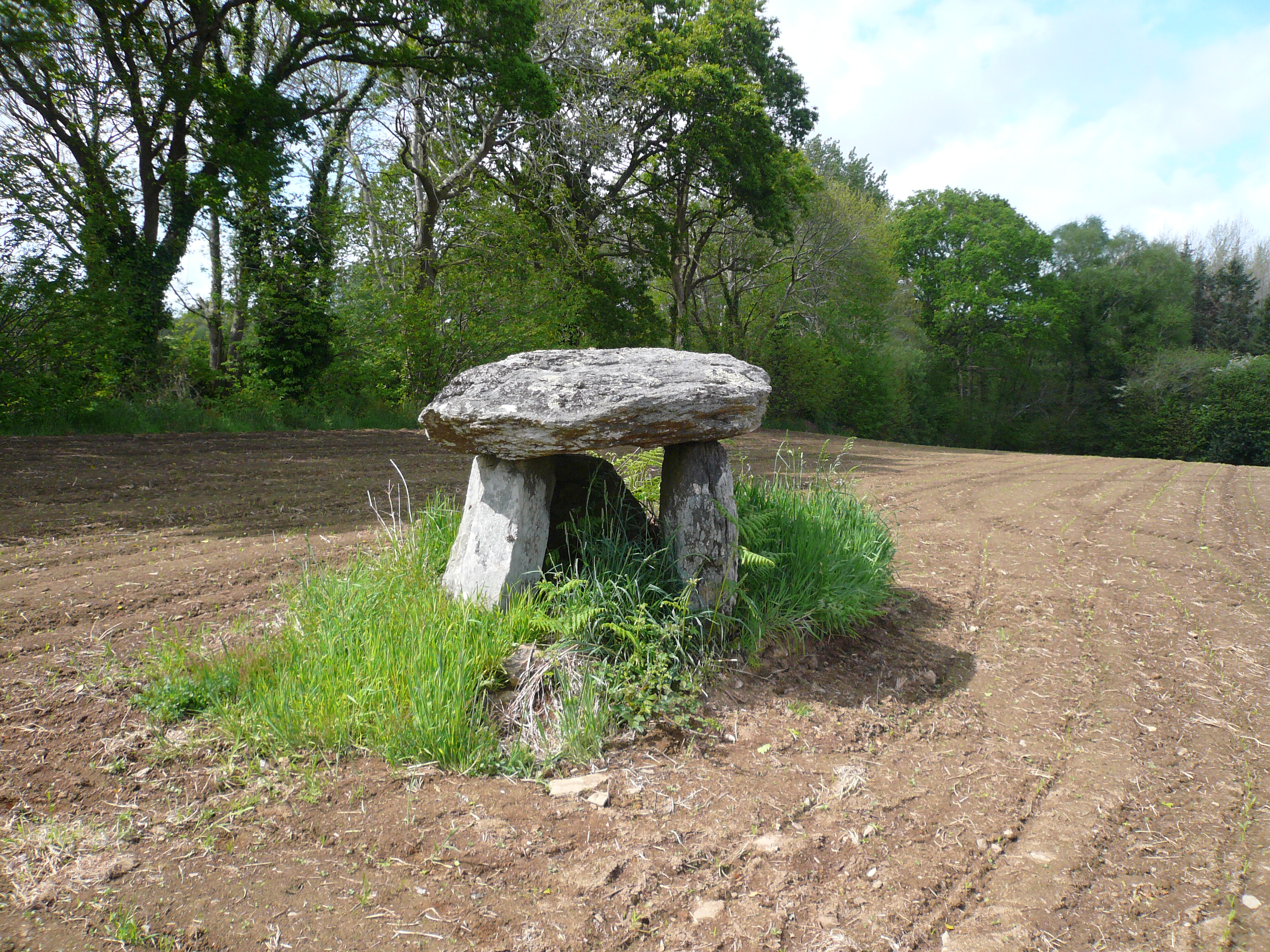 Dolmen near Kerscao in commune of Riec-sur-Bélon, Finistère, Brittany, France.